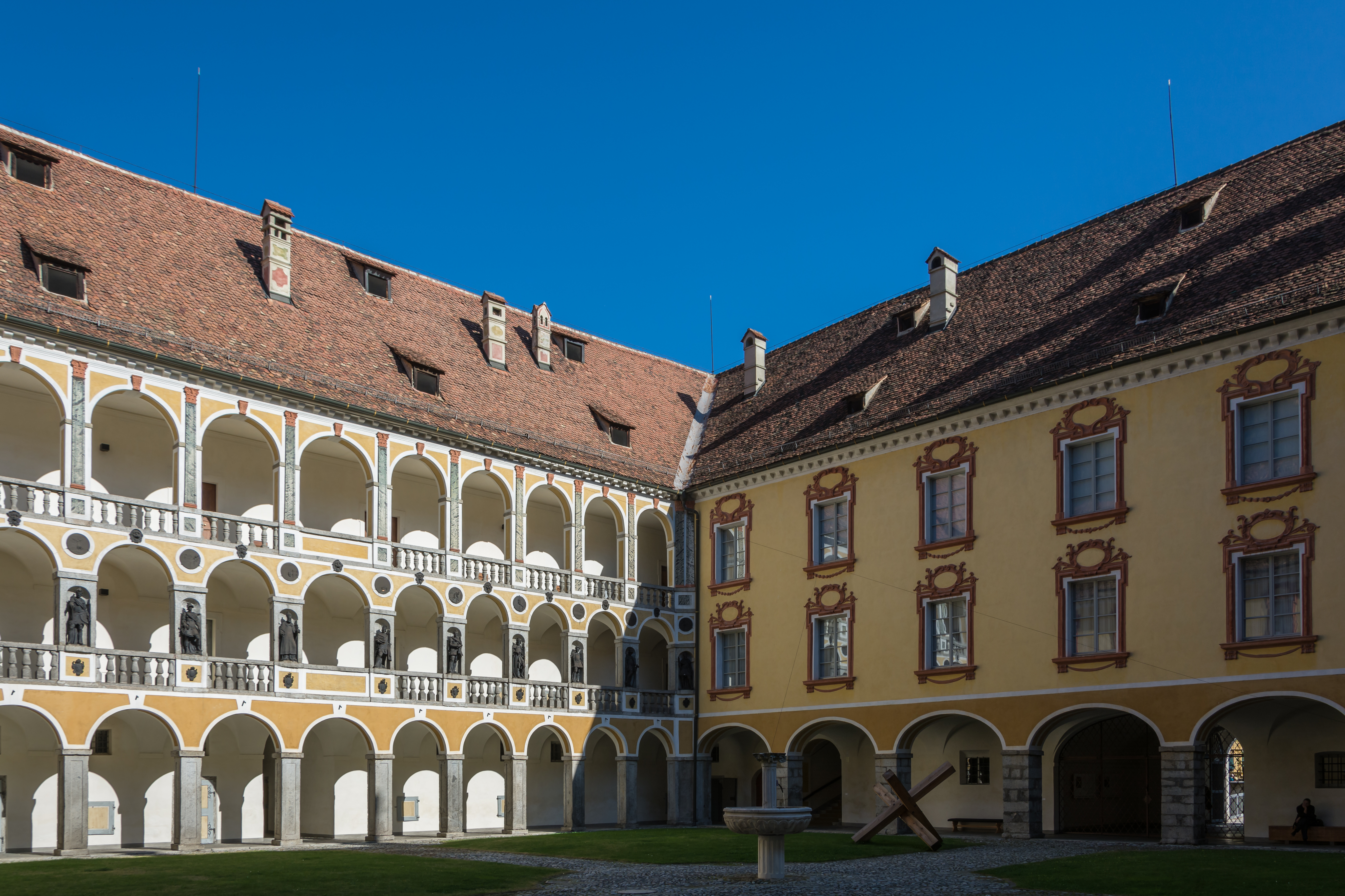 Arcaded courtyard of the Hofburg in Brixen, South Tyrol